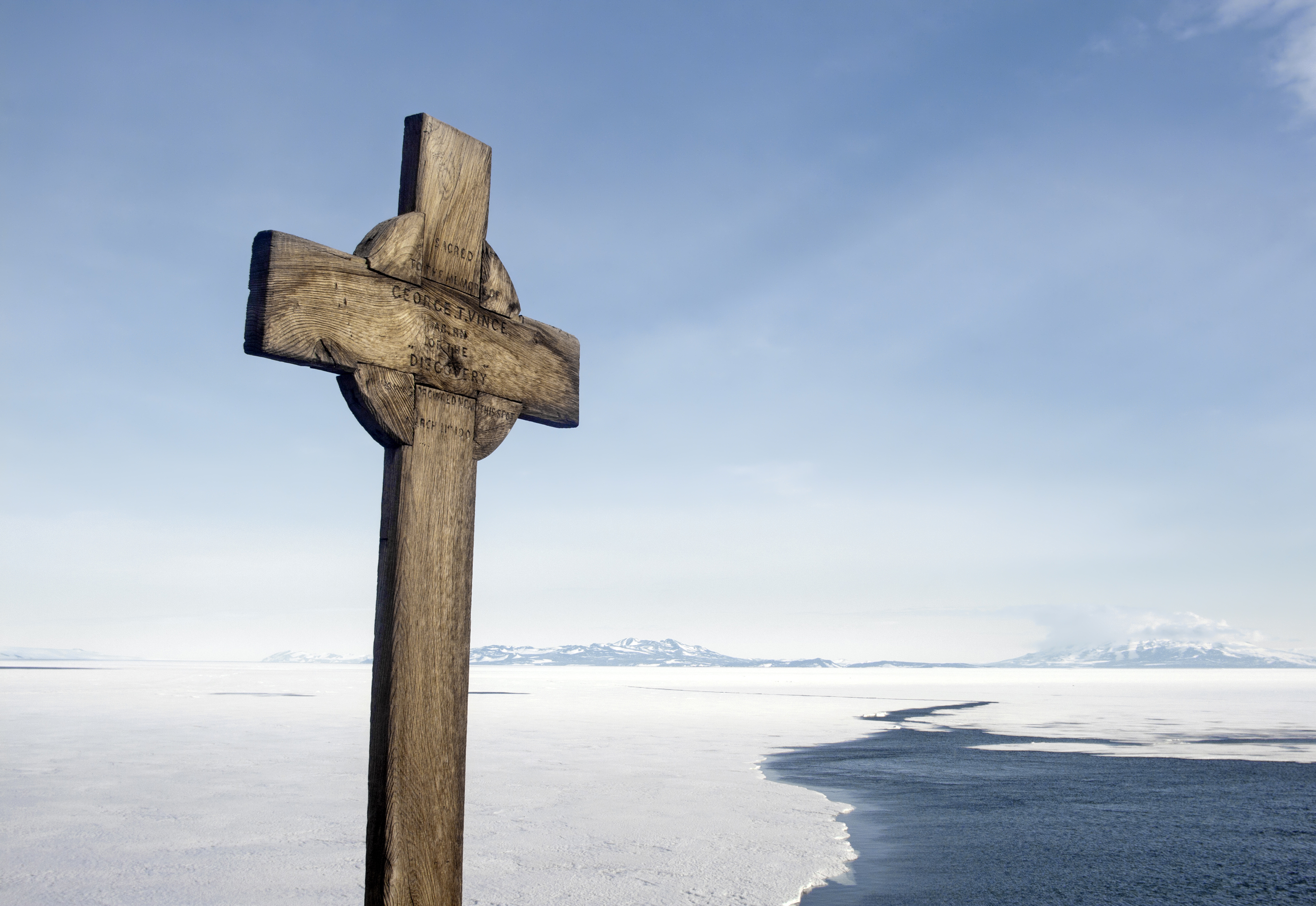 Cross at Hut Point, Ross Island, erected in February 1904 by the British Antarctic Expedition of 1901-04, in memory of George Vince, a member of the expedition, who died in the vicinity.